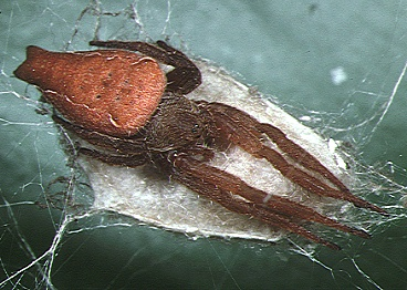 female Cyrtophora exanthematica with eggsac from Okinawa.